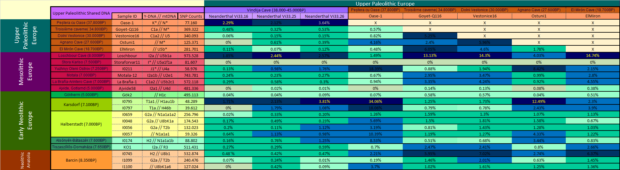 Shared DNA with Neanderthals